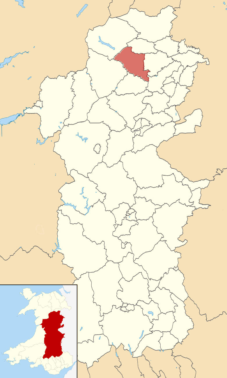 Location map of Llanfihangel electoral ward in Powys, Wales, which encompasses the communities of Llanfihangel and Llangyniew.